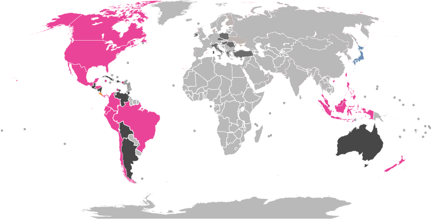 dunkin' donuts